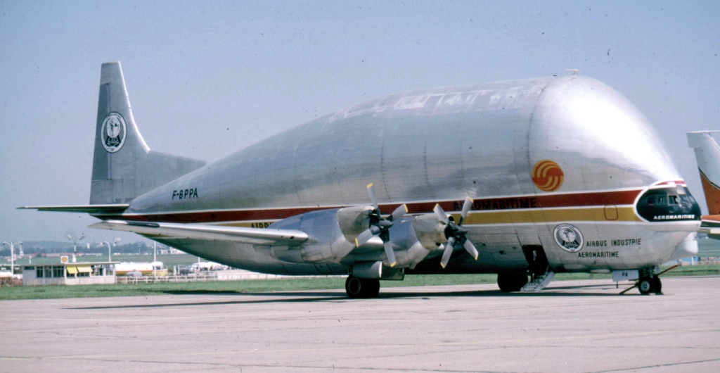 Airbus 377 Super Guppy Registration F-BPPA at Le Bourget Paris.